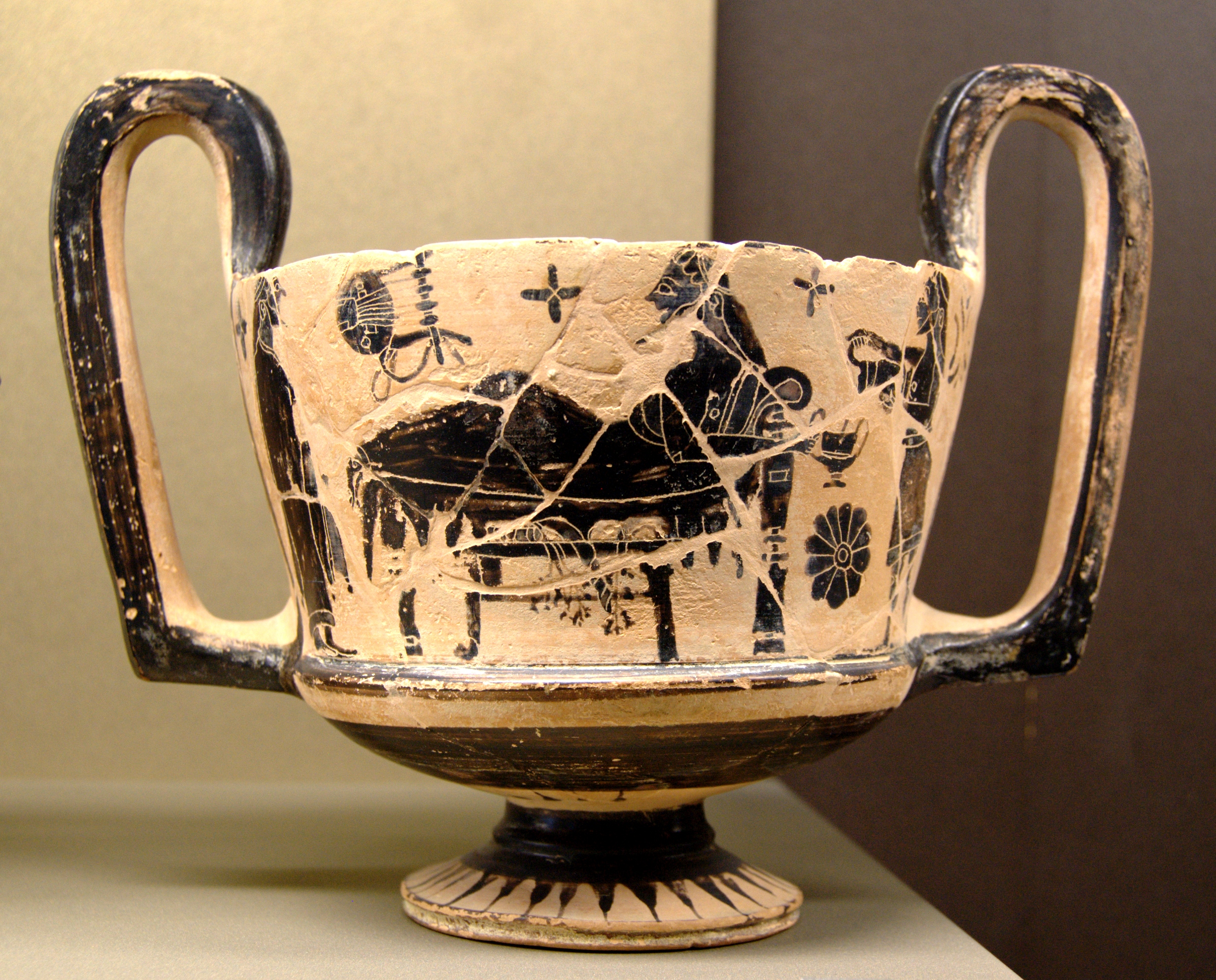 Banquet scene. Side A from a Boeotian black-figure kantharos, ca. 560 BC.